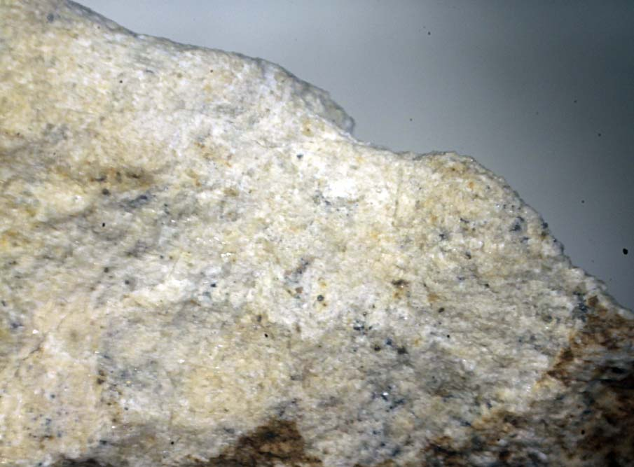 Pabstite is a very rare Ba-Sn-Ti mineral, only known from 4 localities worldwide, being this one from the type locality: Pacific Cement Quarry, Santa Cruz, Santa Cruz County, California, United States of America. It occurs in this specimen as tan crystal aggregates. Ex.F.Bauer collection.